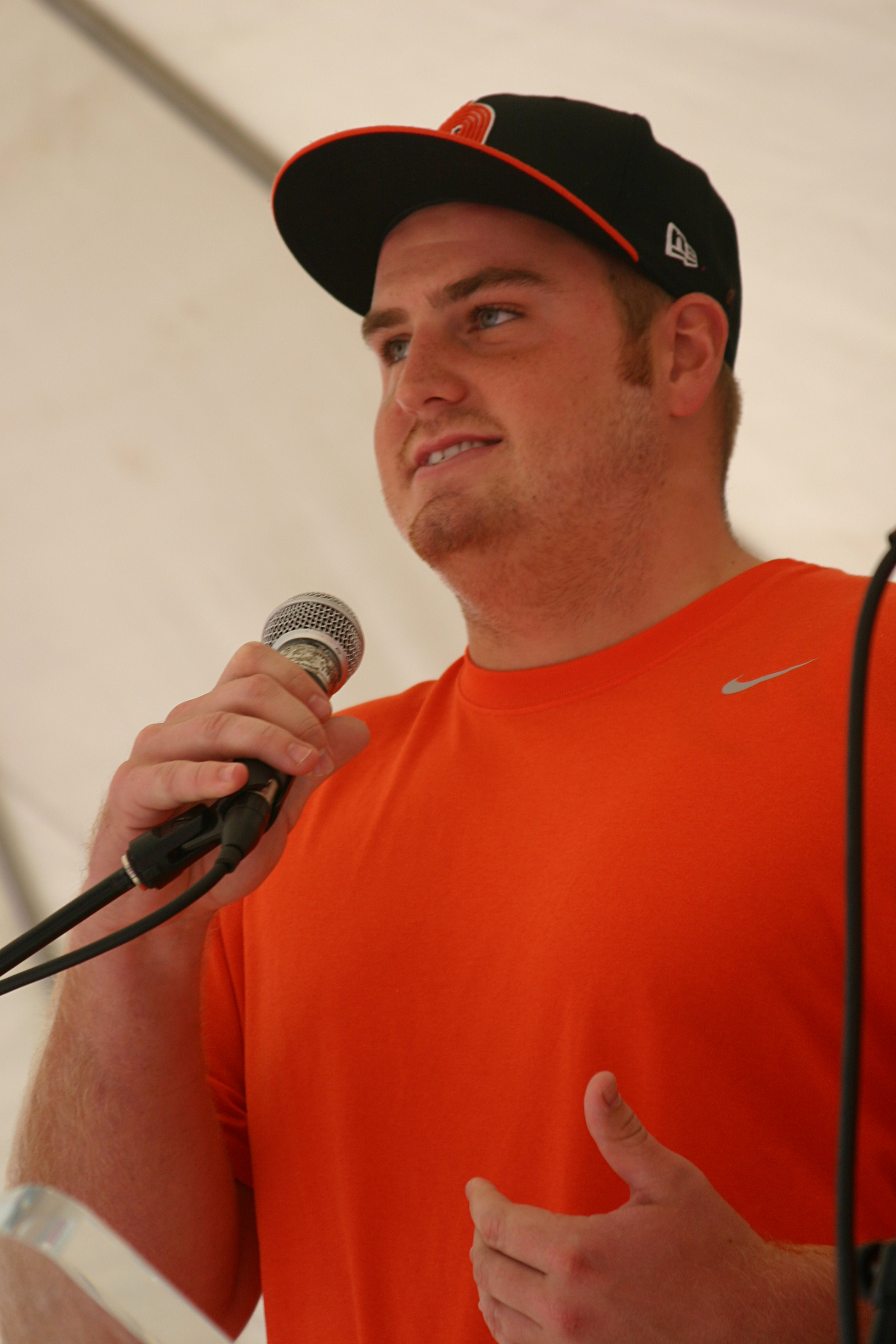 OSU football player Mike Remmers. Date: Sept. 16, 2011 (photo: Theresa Hogue)